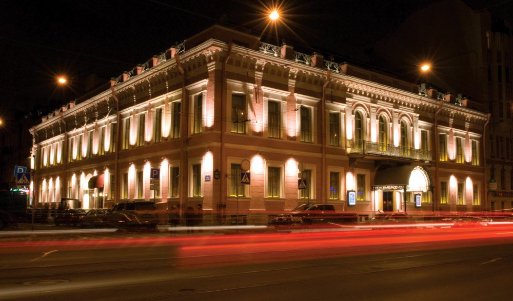 Olympia club (Saint-Petersburg), Dolgorukova's Palace